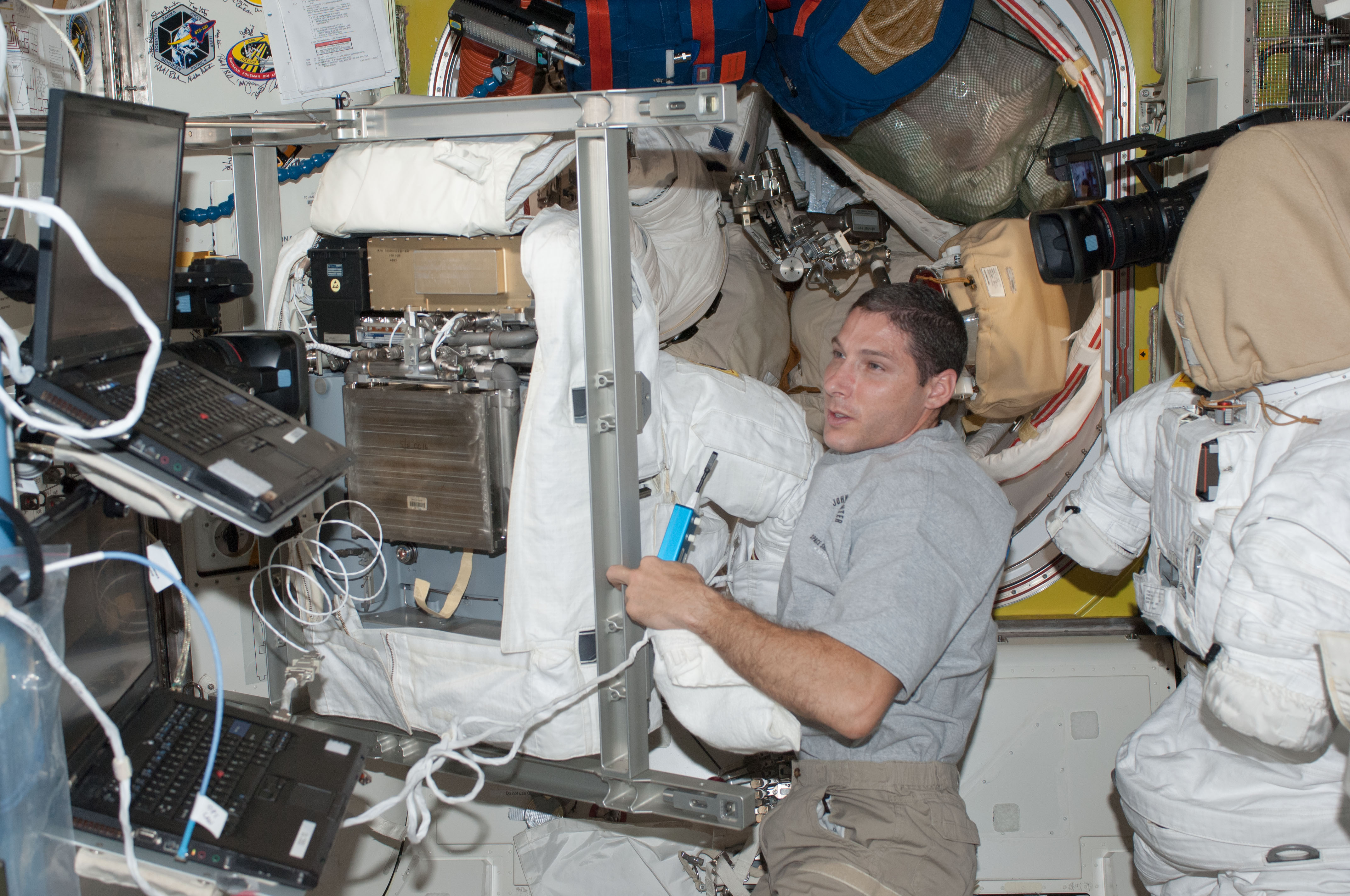 NASA astronaut Michael Hopkins, Expedition 37 flight engineer, works with an Extravehicular Mobility Unit (EMU) spacesuit in the Quest airlock of the International Space Station.